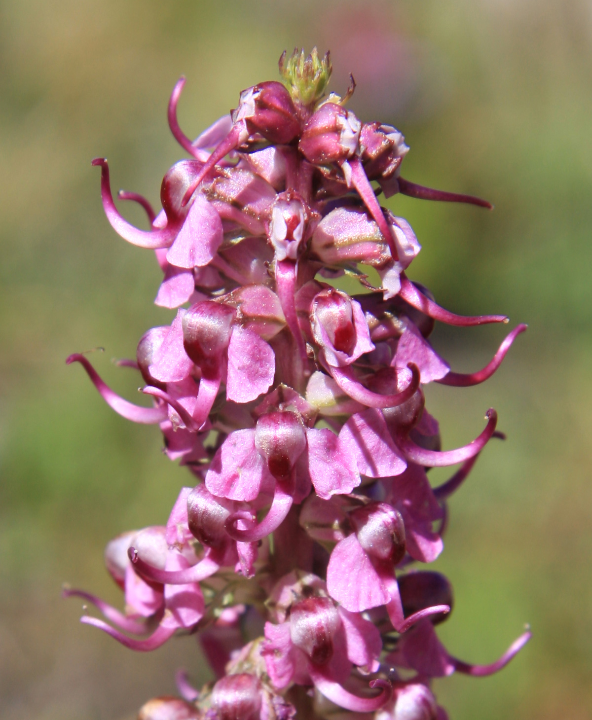 Elephant's head (Pedicularis groenlandica) closeup, showing elephant head & trunk shape of individual flowers in profile and full-face. "Trunk" points straight down in buds (top row). At 10,440ft on bench above South Fork Green Creek, Hoover Wilderness, Sierra Nevada USA.